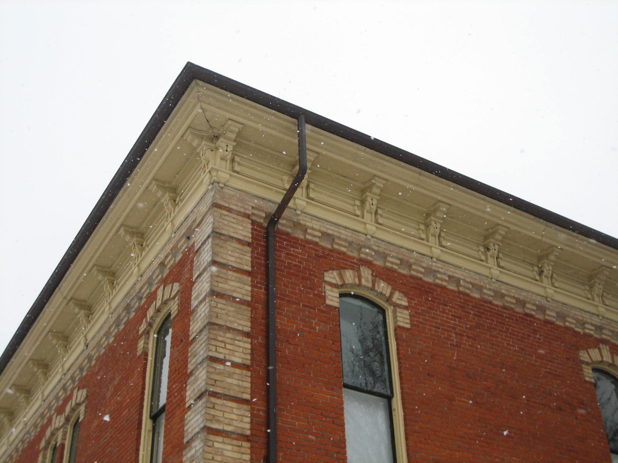 Rochelle, Illinois. City and Town Hall, National Register of Historic Places.